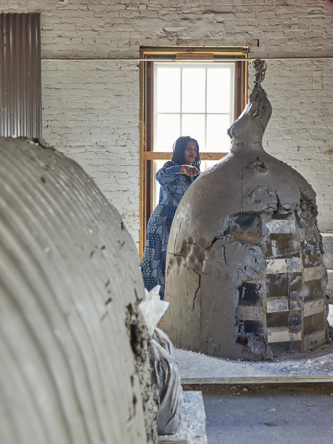 Simone Leigh, Philidelphia PA Photo By Kyle Knodell